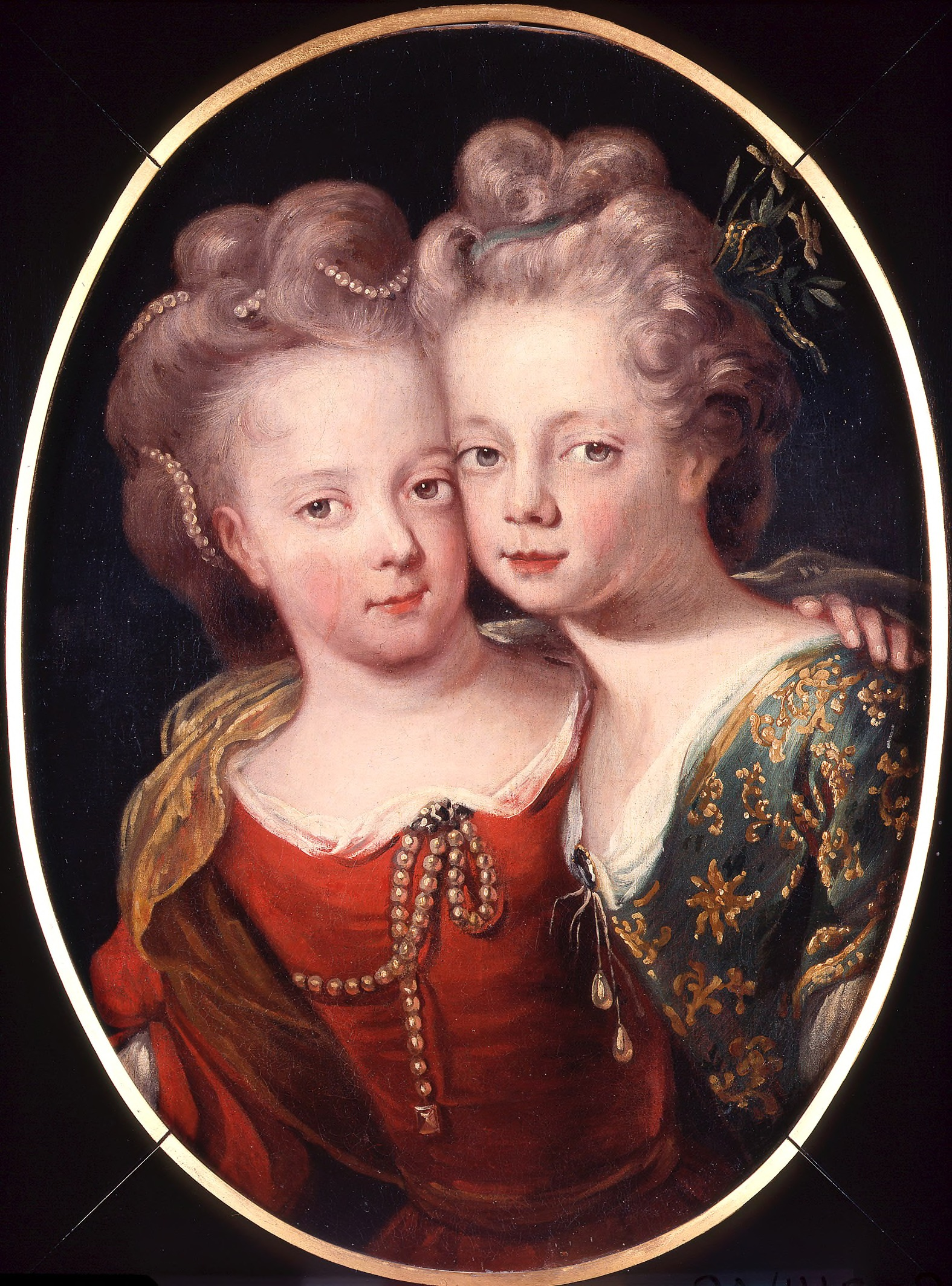 Portrait of Isabella Charlotte of Nassau-Dietz (1692-1757) and her sister Sofia Hedwig (1690-1734)